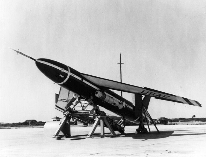 EARLY SNARK MISSILE - December 1952